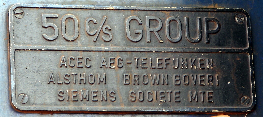 SAR Class 7E2 Series 1 E7163 builders' plateLocation: Sentrarand, Gauteng